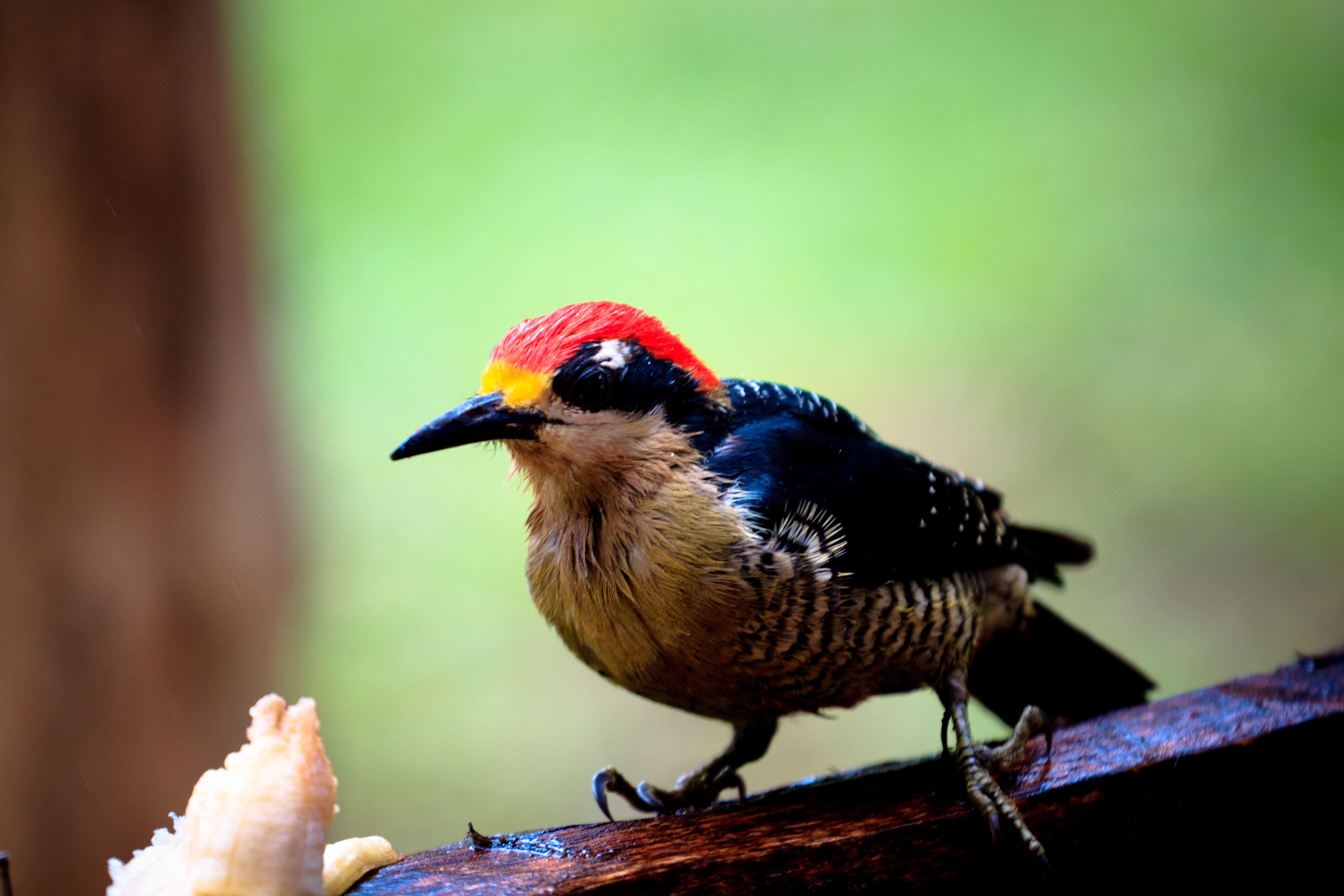 An female Black-cheeked Woodpecker in Costa Rica.